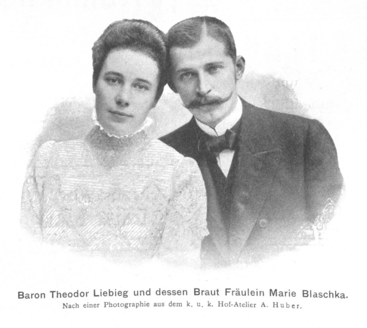 Photo of Theodor von Liebieg (1872-1939), an entrepreneur from Reichenberg (Liberec) in Bohemia, with his fiancé Marie Blaschka